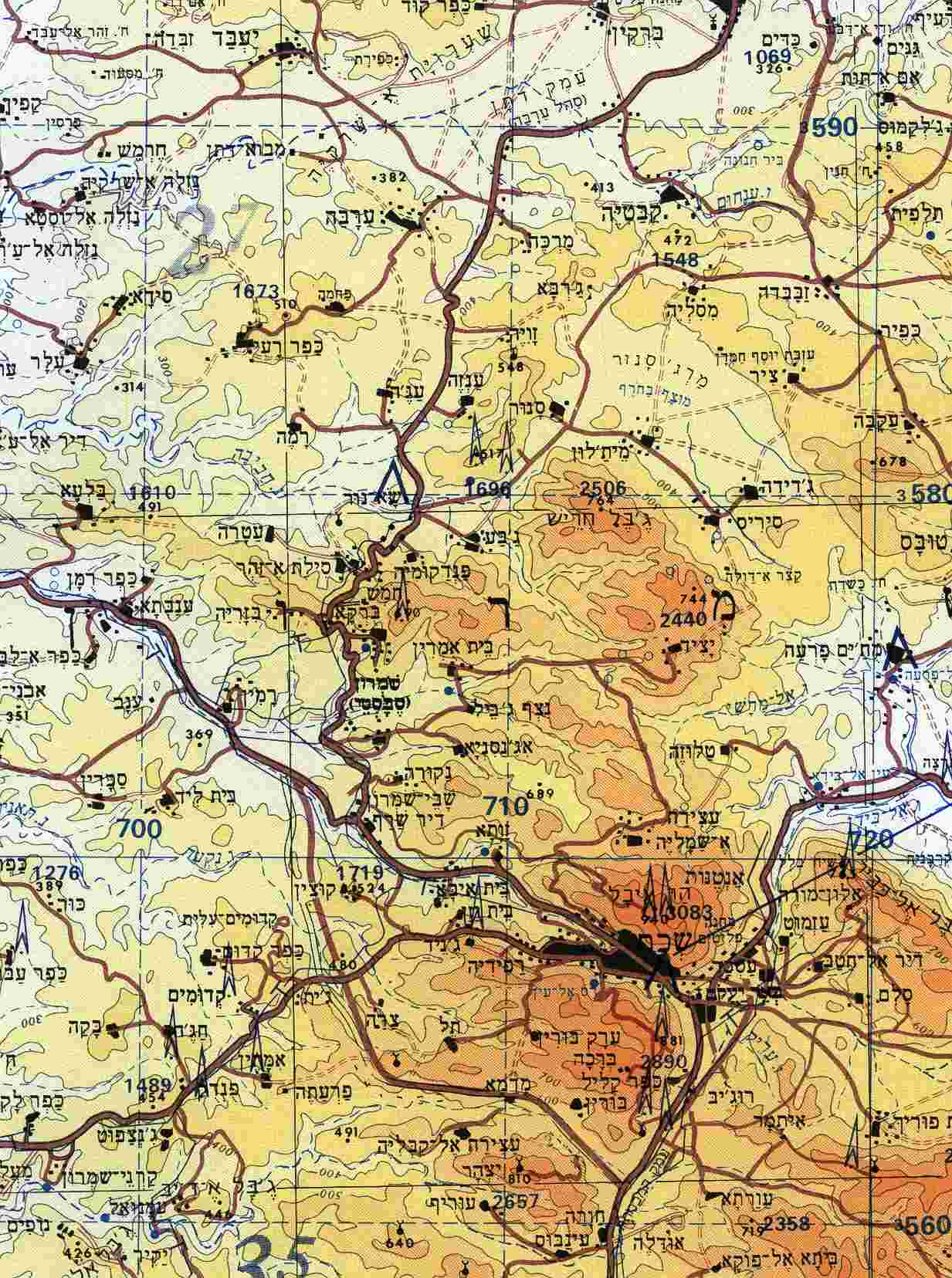 Section of topographical map of Nablus area (West Bank) with contour lines at 100-meter intervals.